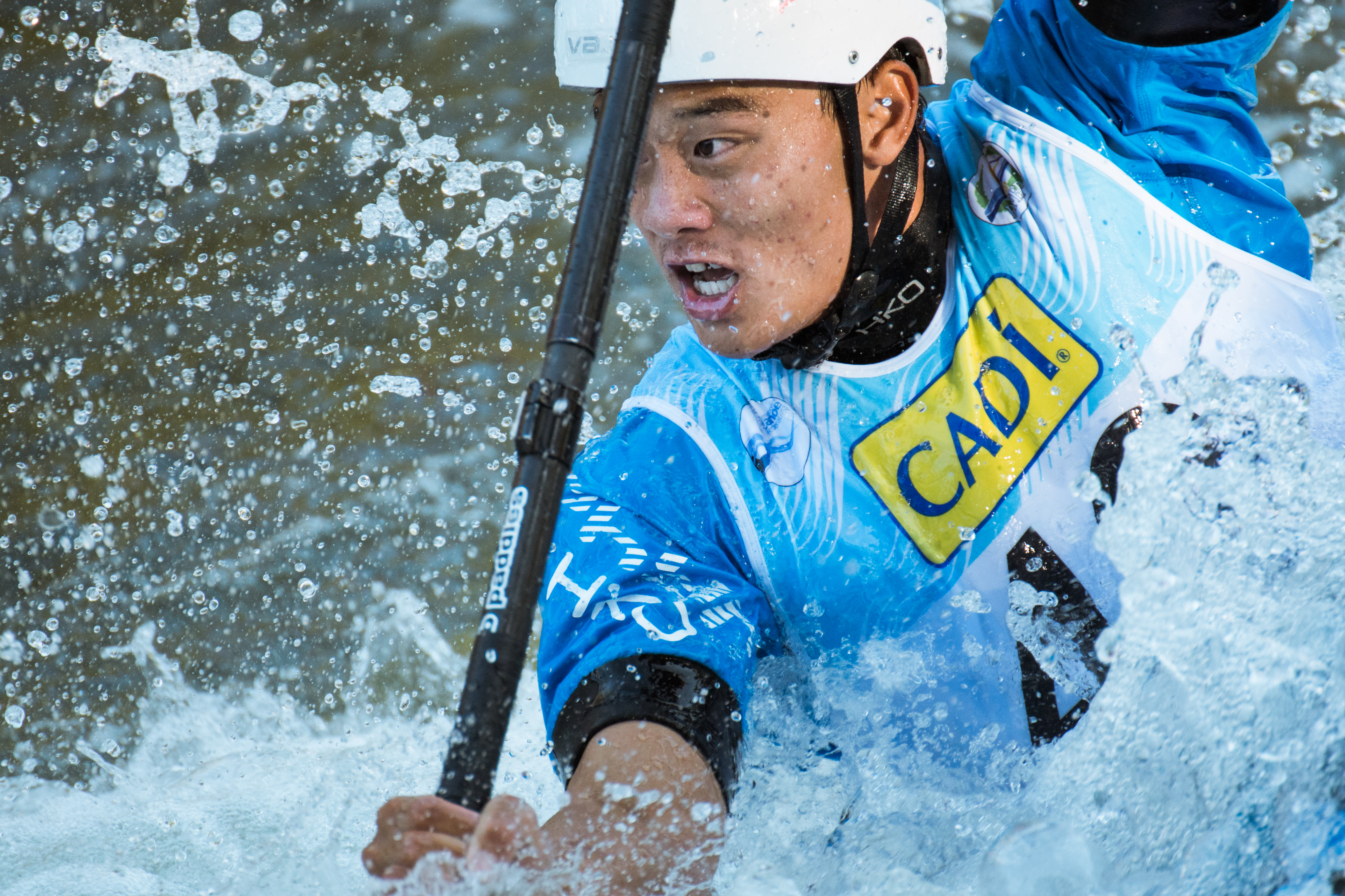 Quan Xin during the 2019 Canoe Slalom World Championships in La Seu d'Urgell, Spain.